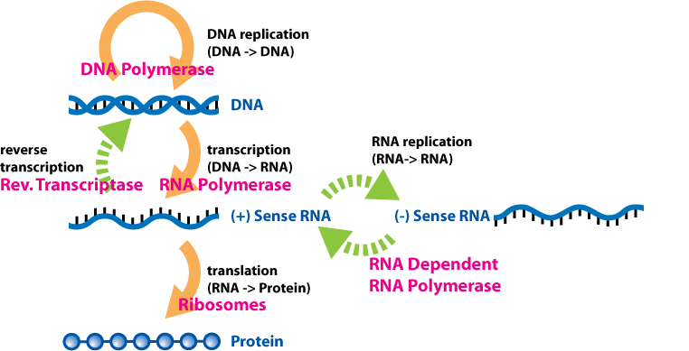 An overview of the central dogma of molecular biochemistry with all unusual flows of information included (in green)